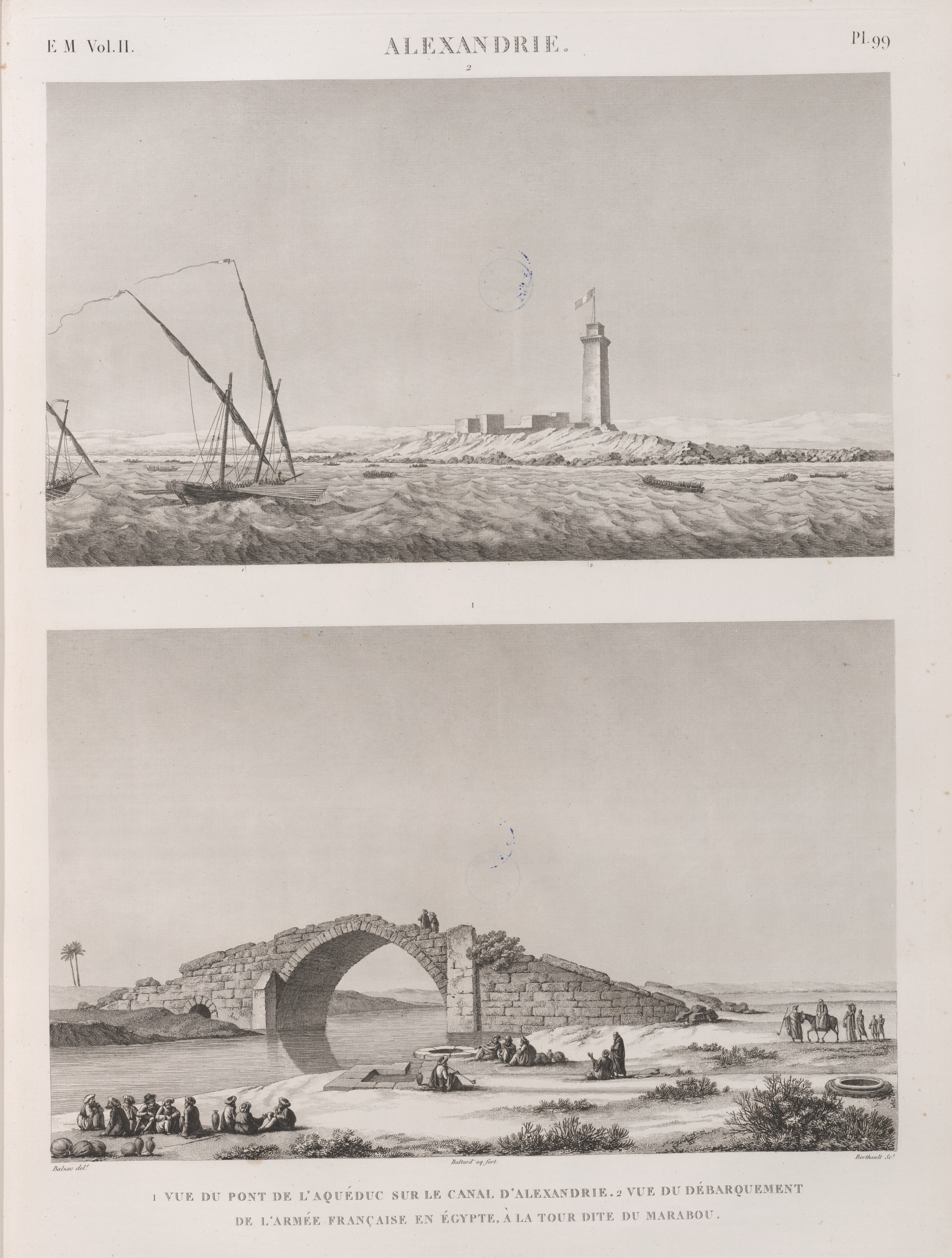 Alexandrie [Alexandria]. 1. Vue du pont de l'aqueduc sur le canal d'Alexandrie; 2. Vue du débarquement de l'armée française en Égypte, à la tour dite du Marabou.